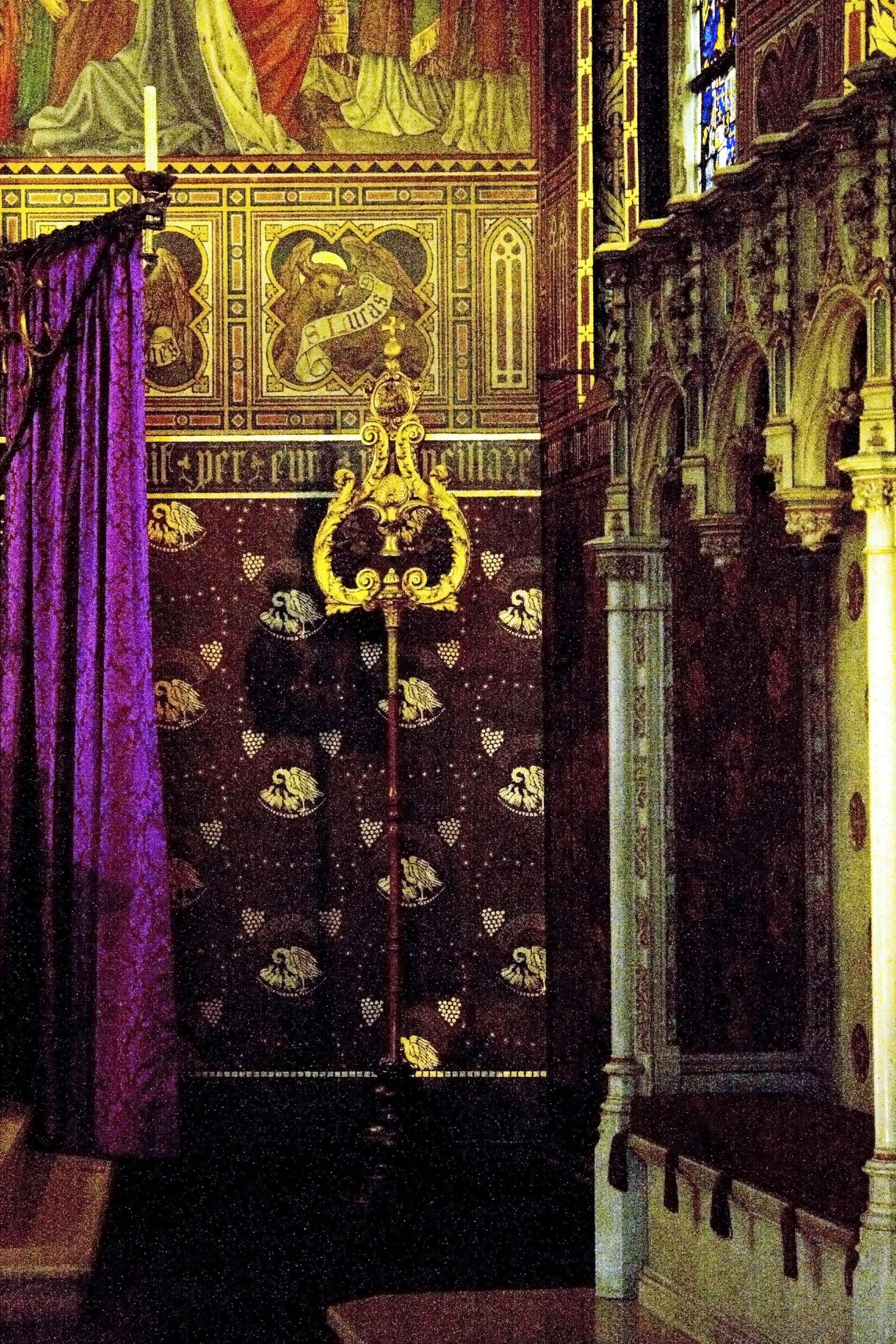 The tintinnabulum, attribute of a basilica